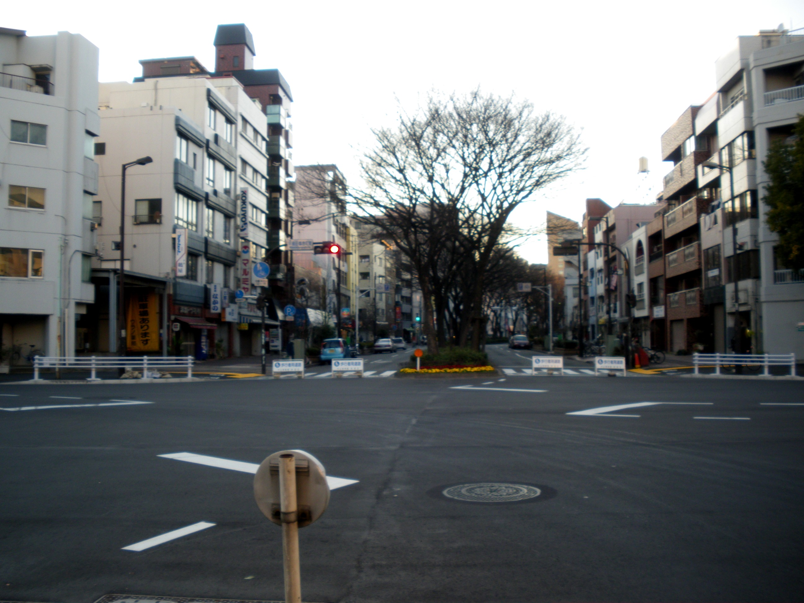 Wasedatsurumakicho Higashi intersection(Shinjuku,Tokyo)